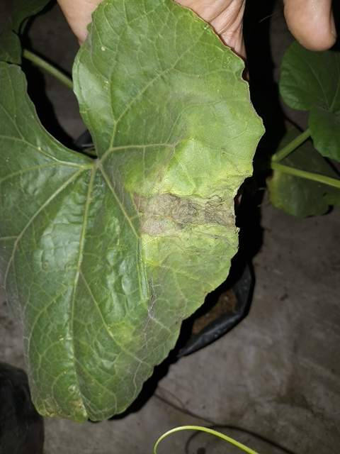 leaf attacked by insect and resulting in thrips